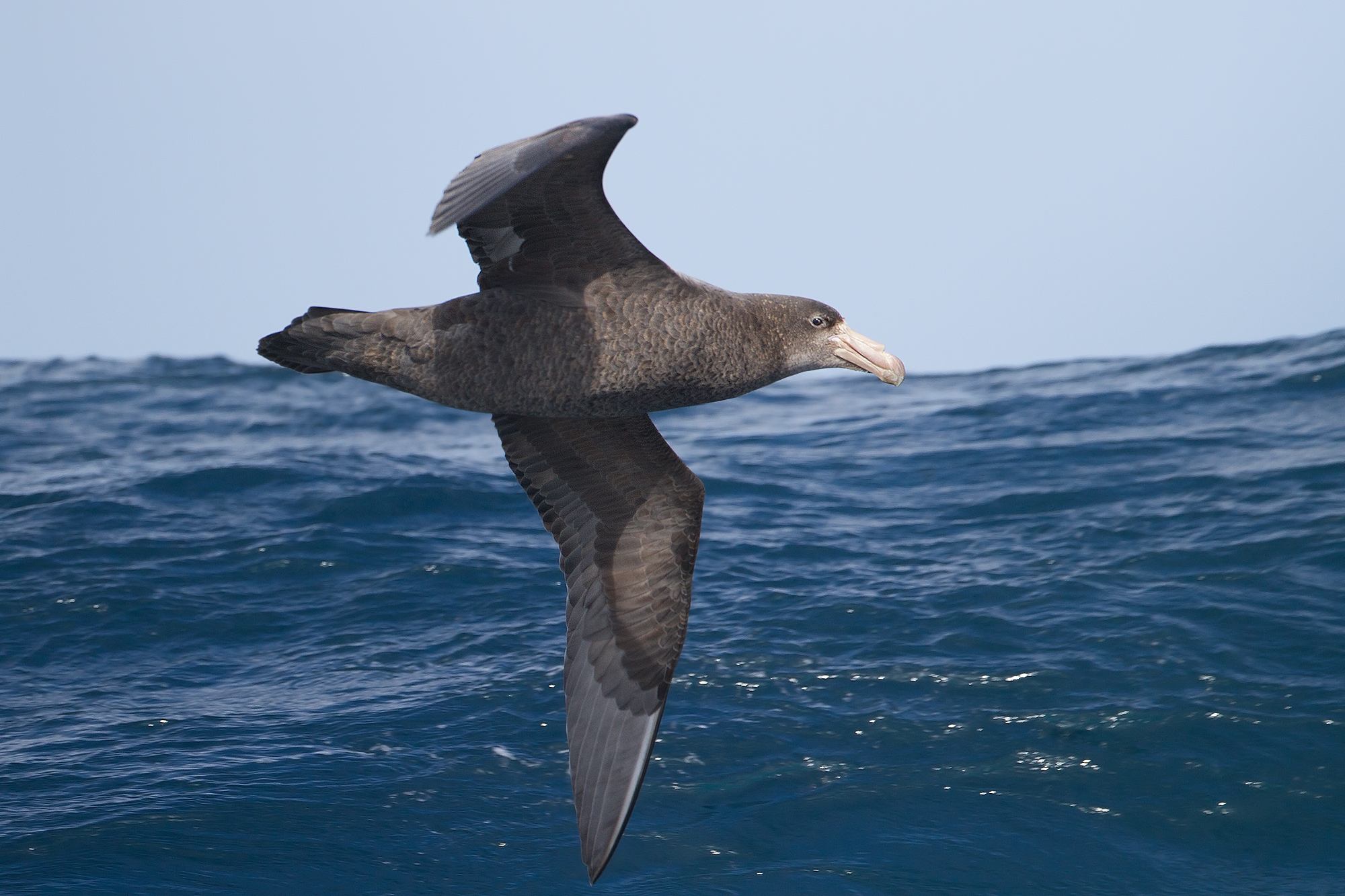 Imm. Northern Giant Petrel (Macronectes halli) in flight, East of the Tasman Peninsula, Tasmania, Australia